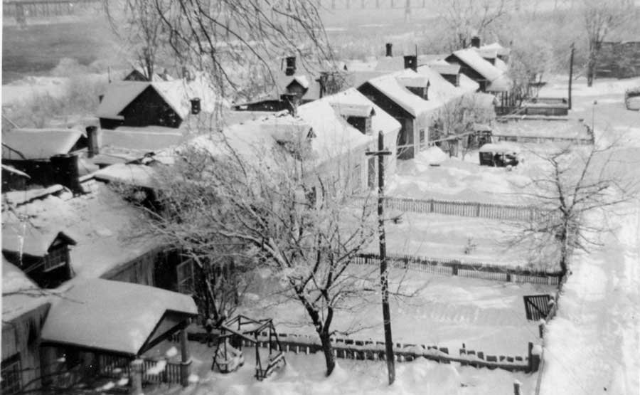 Houses on Chenail Island, Ontario, Canada. We can see the residences of Hector Proulx, Mme Antonia Cadieux (Fauteux), Florian Lascelles, Philippe Proulx, Frank Gray, Edmit Gray, Edgar Fauteux and Albert Danis.